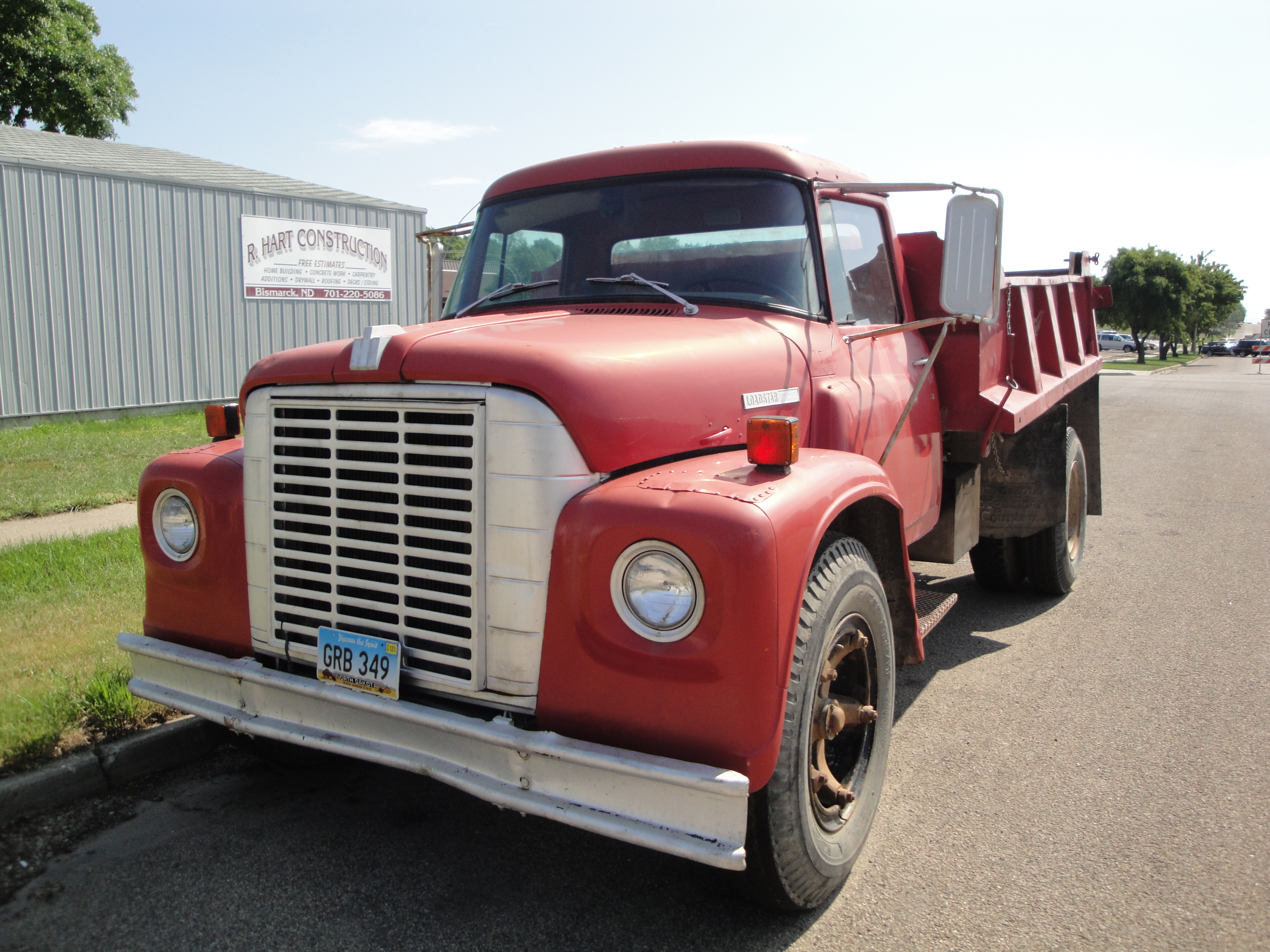 Bismark, North Dakota. June 2012